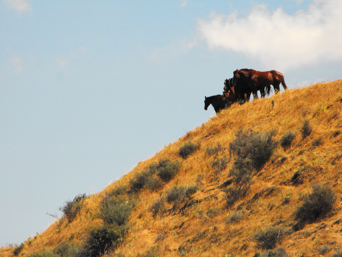 Sicily, Italy. Jul 2010